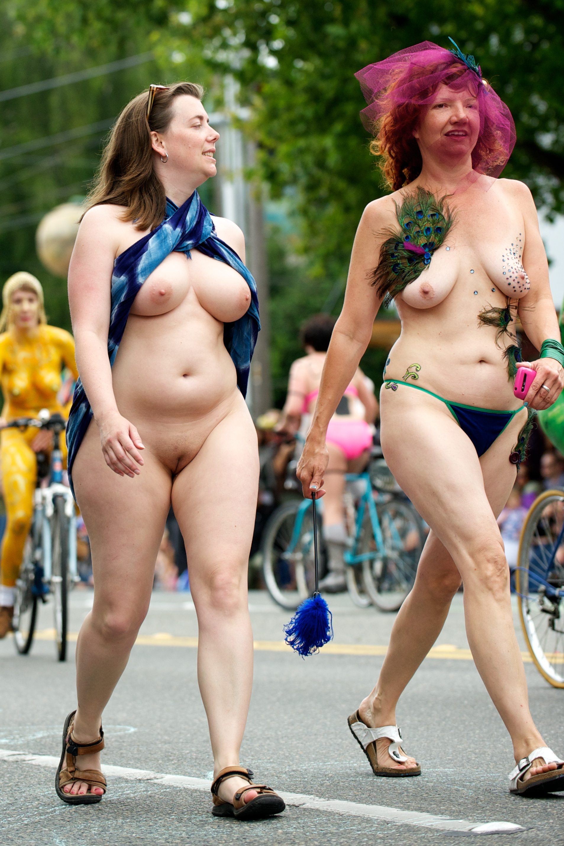 Fremont Solstice Parade.